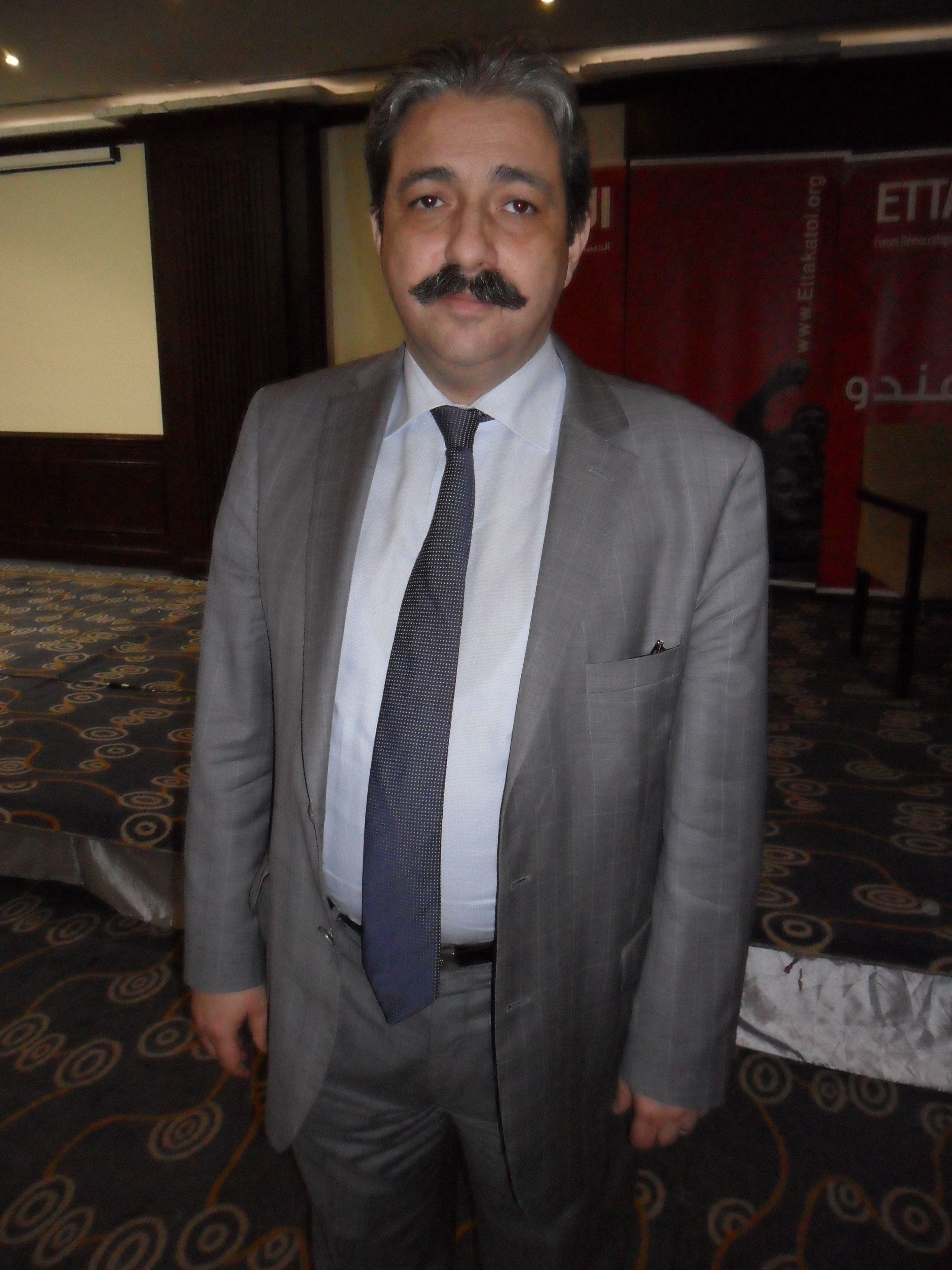 Khalil Zaouia (1961- ), Tunisian minister and physician